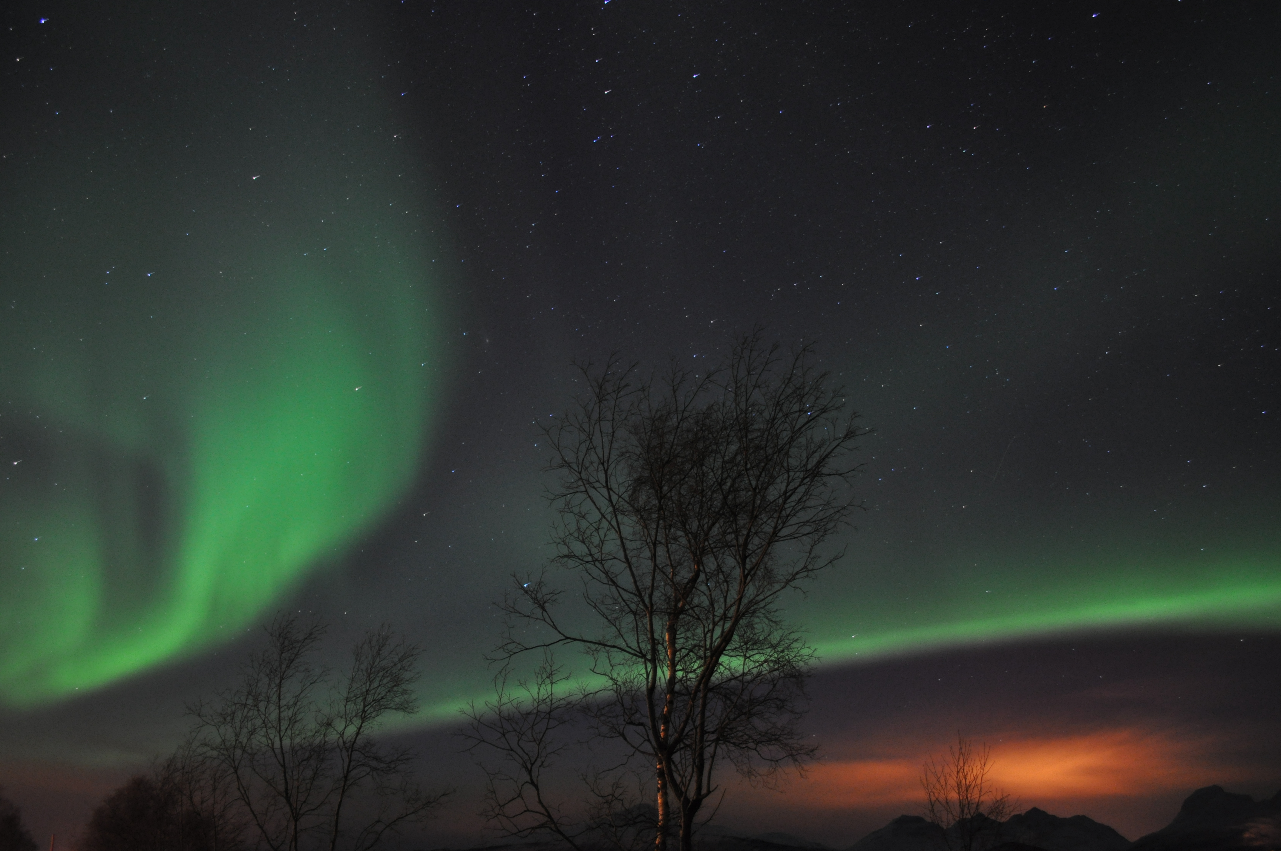 The Northern Lights near Tromsø.